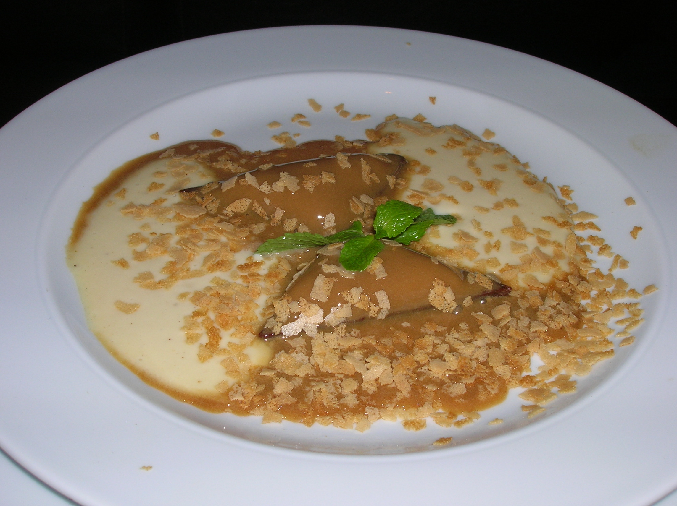 Avi biton 2011 5